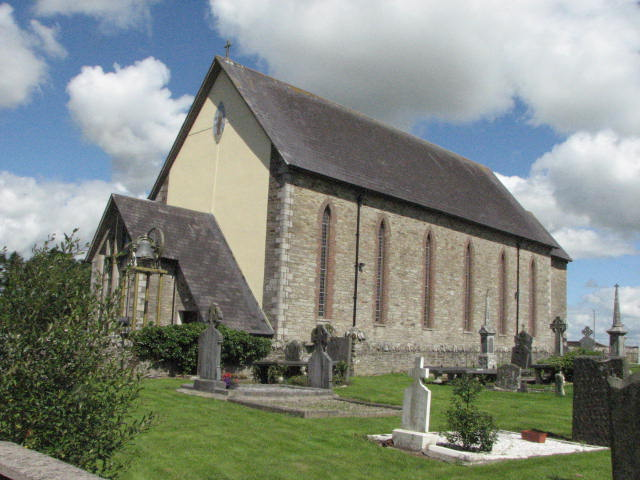 Boolavogue Church, near to Boleyvogue, The Harrow and Garrybrit, Wexford, Ireland. This is a nice Church, with a fine monument to Father John Murphy and Comrades, who took part in the rising of 1798.